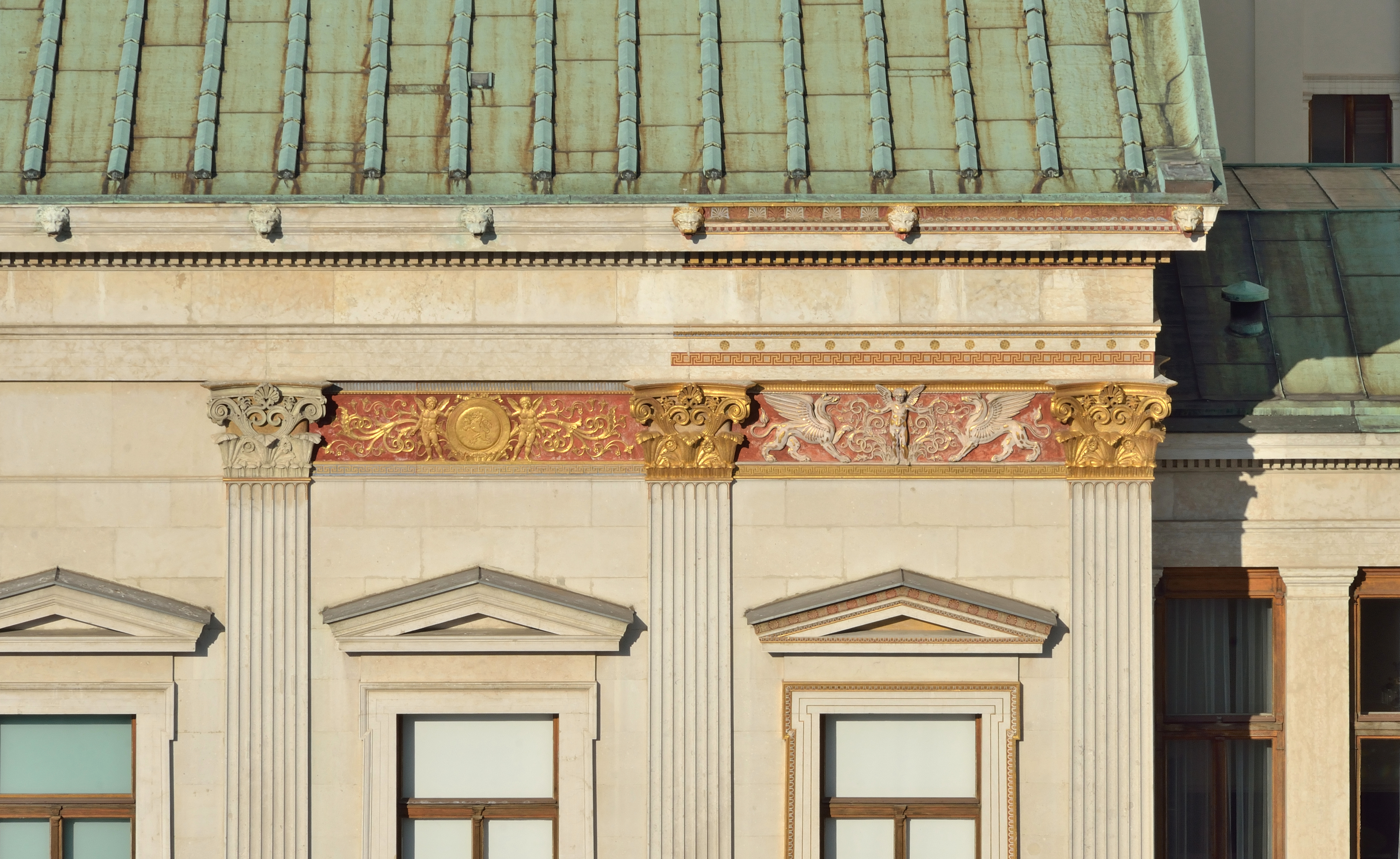 Coloured sections of the Austrian Parliament building in Vienna. The architect Baron Theophil von Hansen wanted the whole structure to be painted and was allowed to paint some sections as a test. These can be seen on the southern side at Schmerlingsplatz.